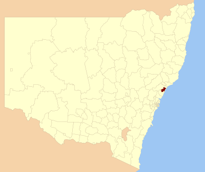 Location of Lake Macquarie LGA in New South Wales